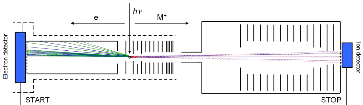 Schematic representation of a velocity map imaging photoelectron photoion coincidence apparatus. The electrons are velocity map imaged depending on their inital kinetic energy (different electron beams on the left), ion masses are determined by time-of-flight mass spectrometry. All ions with thermal velocities are detected by the ion detector (blue ion beams on the right).